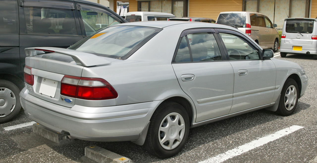 5th generation Ford Telstar ( 1997 - 1999 )